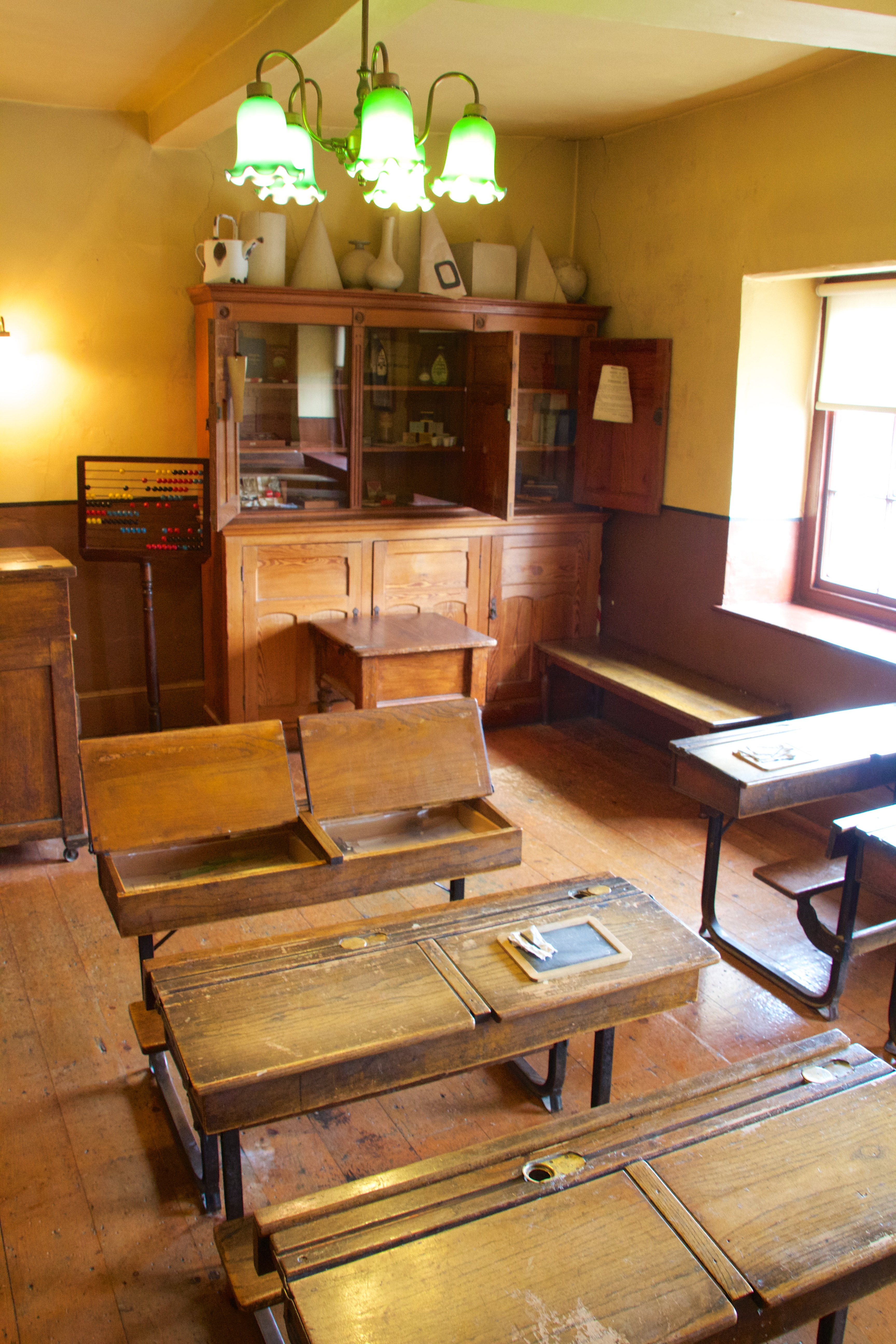 Taken during the tour and editathon at the Judges' Lodgings, Lancaster.